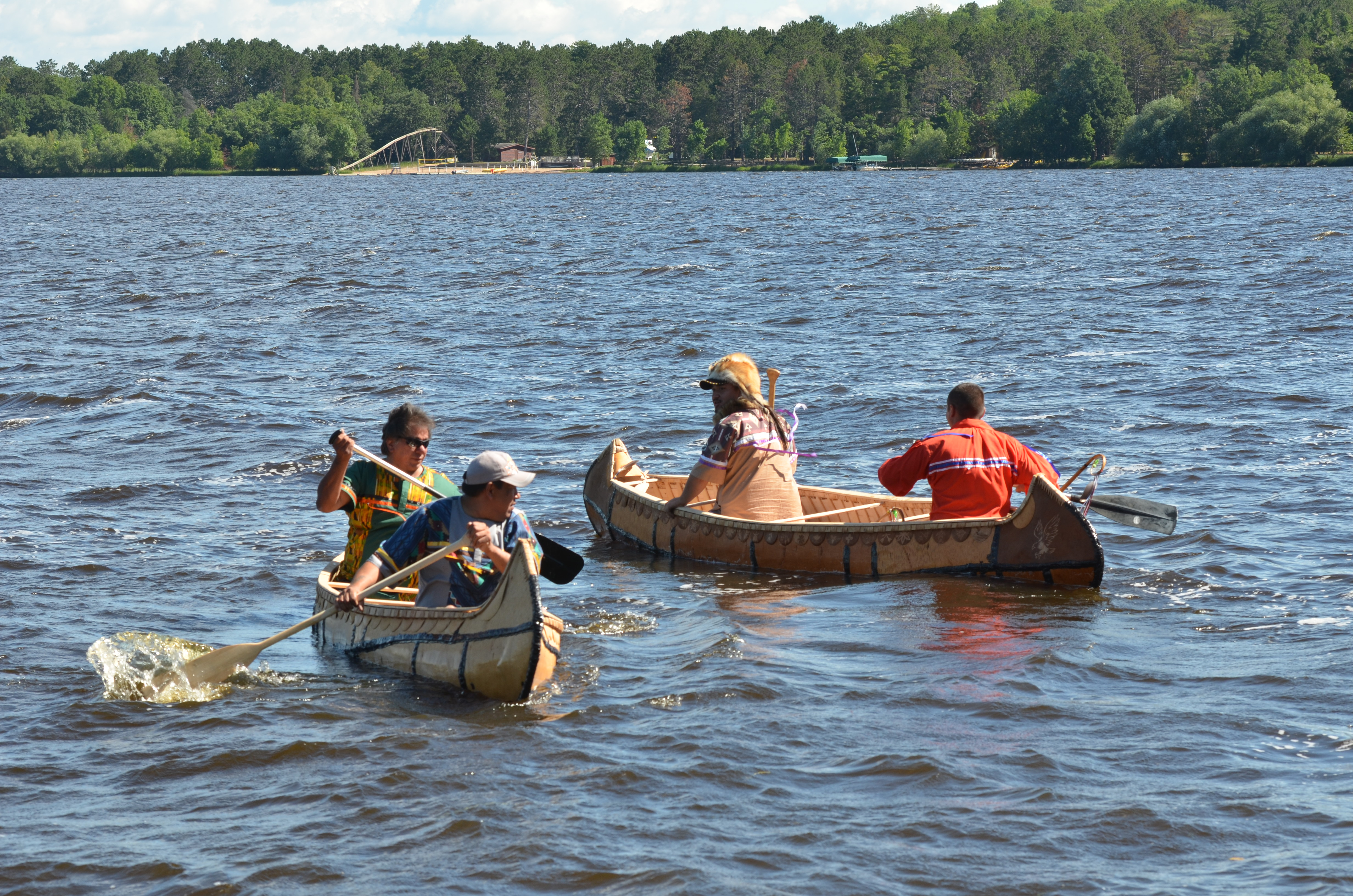 U.S. Army Corps of Engineers employees, tribal members associated with the Great Lakes Indian Fish & Wildlife Commission, or GLIFWC, and friends honored the more than 400 Anishinaabe people that died during the 1850-1851 tragedy during a ceremony at the Corps’ Big Sandy Lake Recreation Area, near McGregor, Minn., July 31. The group honored the GLIFWC ancestors by canoeing across Big Sandy Lake. Jim Zorn, GLIFWC executive administrator, said, Mikwendaagoziwag (Ojibwe for “We remember them”) “We remember them and I’ll venture to guess that everyone here is touched by their story." The more than 400 Anishinaabe people that died during the fall and winter in 1850-1851 were at the lake awaiting their annuity payments for ceded lands. More than 150 people died at the lake during the six-week period as they waited for payment. The remaining 250 people died as they attempted to return to their homes. (USACE photo by Patrick Moes)